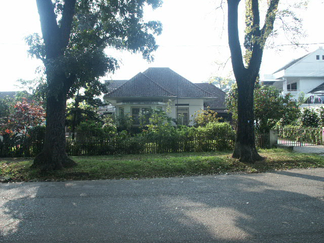 Bandung